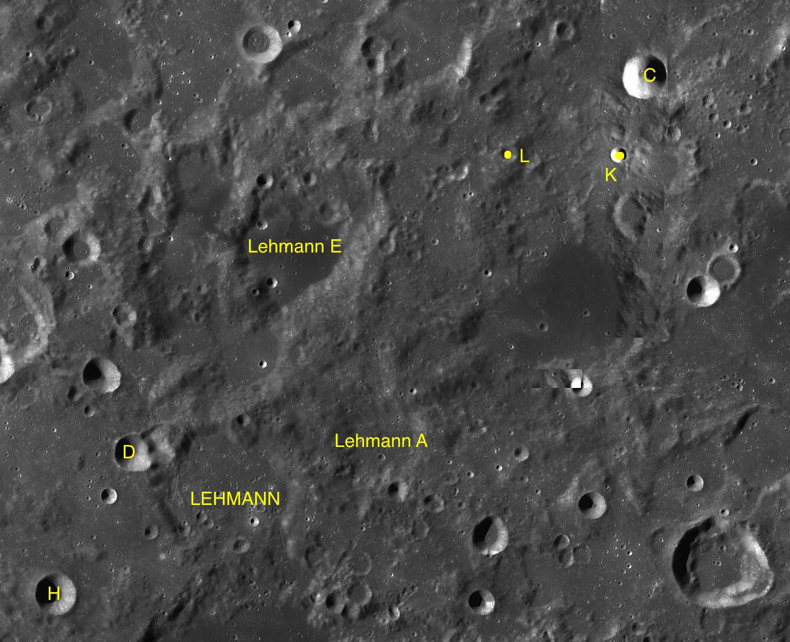 Part of the chart LAC-110 used for the presentation